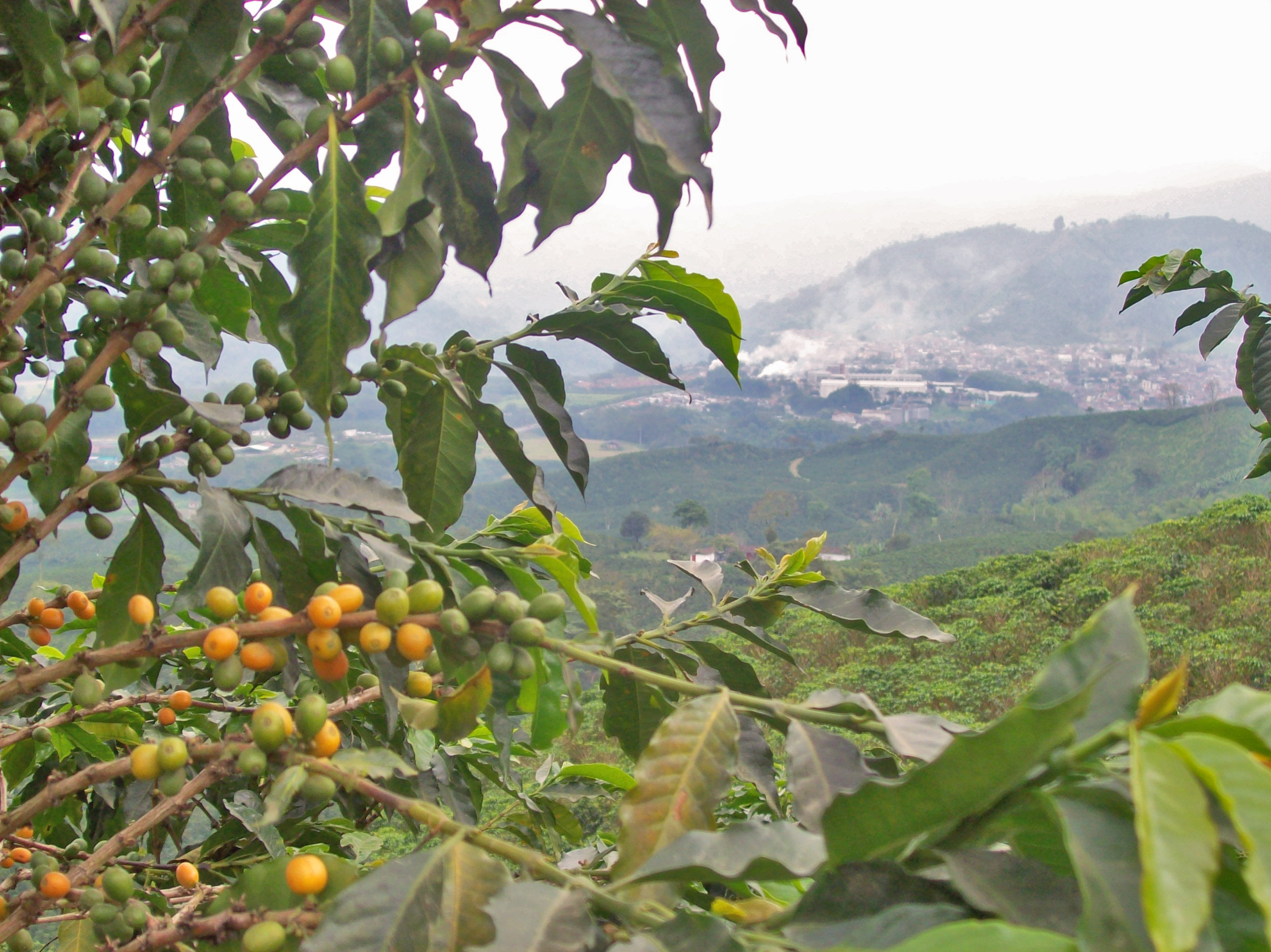 Photograpy taken from the northen hills of Chinchiná, Caldas, Colombia.